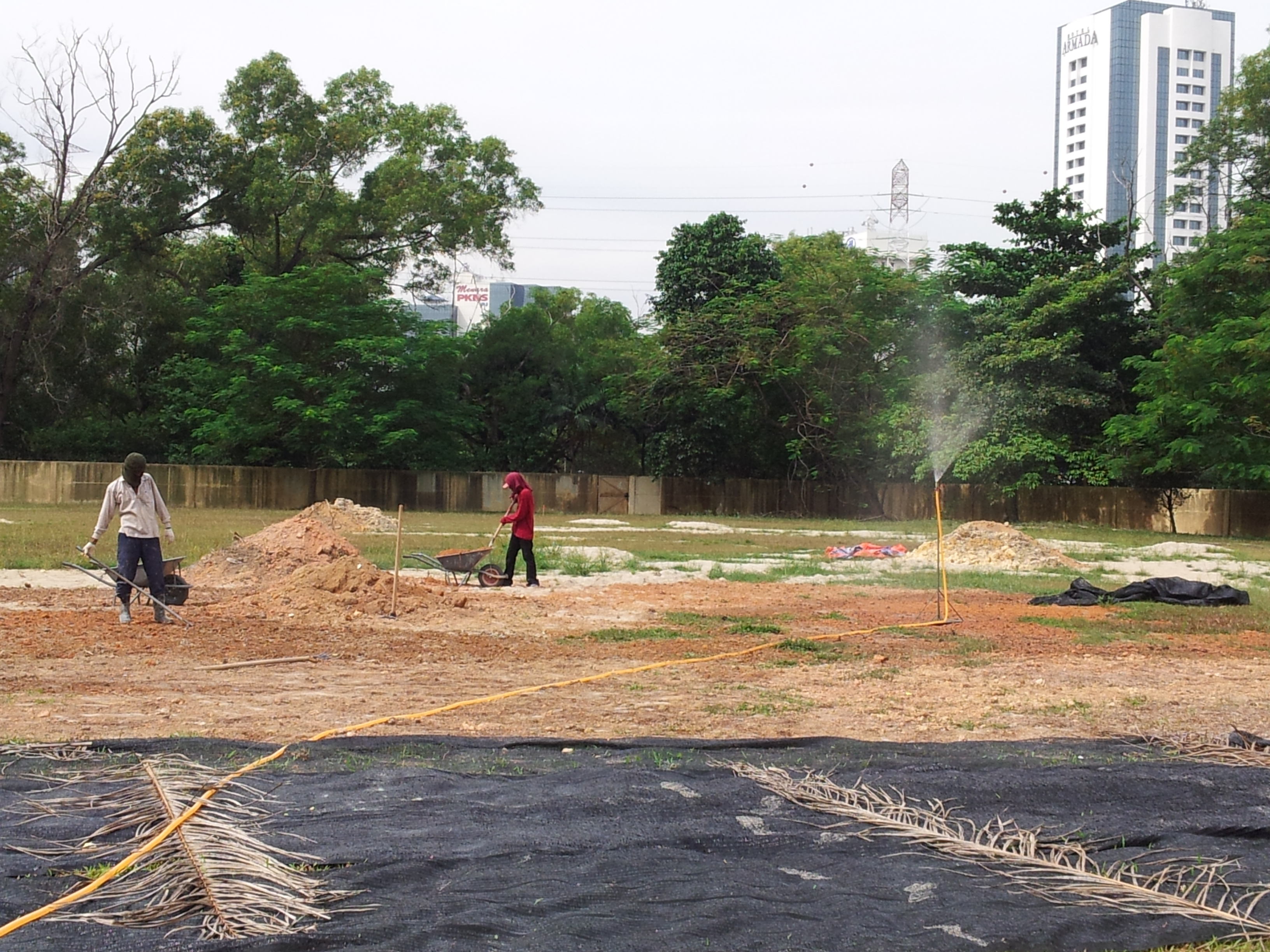 Field 7 - On grounds (June 2013 - upgrading works in progress)